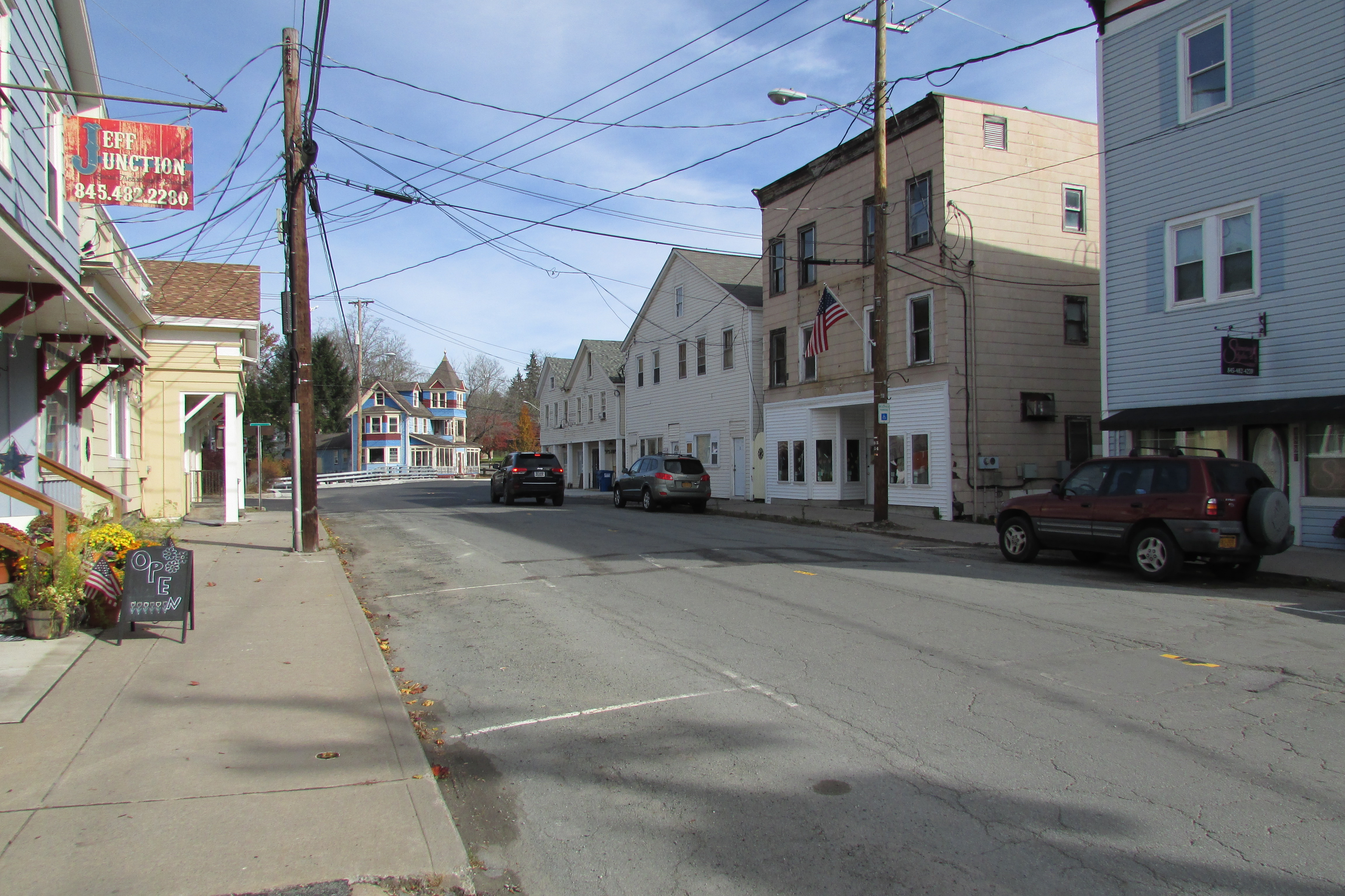 4880 block Main St, Jeffersonville, New York